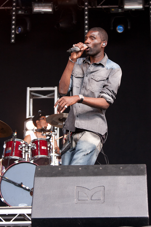 Jermaine Scott known as Wretch 32 performing at Jersey Live 2011, on 3 September 2011, in Jersey.